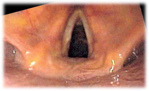 Endoscopic image of larynx seen at the time of intubation of the esophagus during gastroscopy. The vocal cords and crichopharyngeal fossa are well visualized.... Released into public domain on written permission of patient -- Samir धर्म 07:10, 19 January 2007 (UTC)